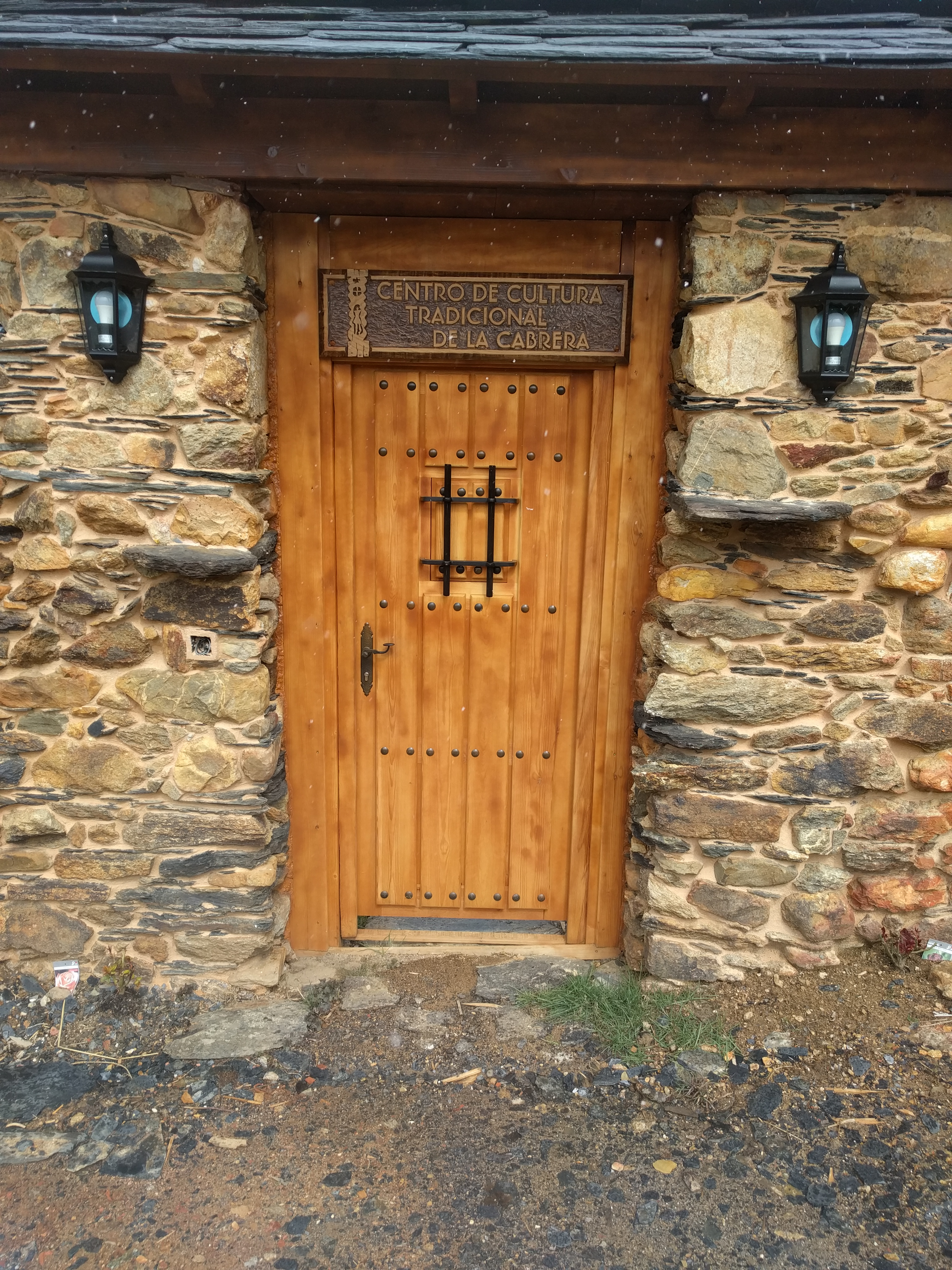 Centro de cultura tradicional de la Cabrera en Valdavido